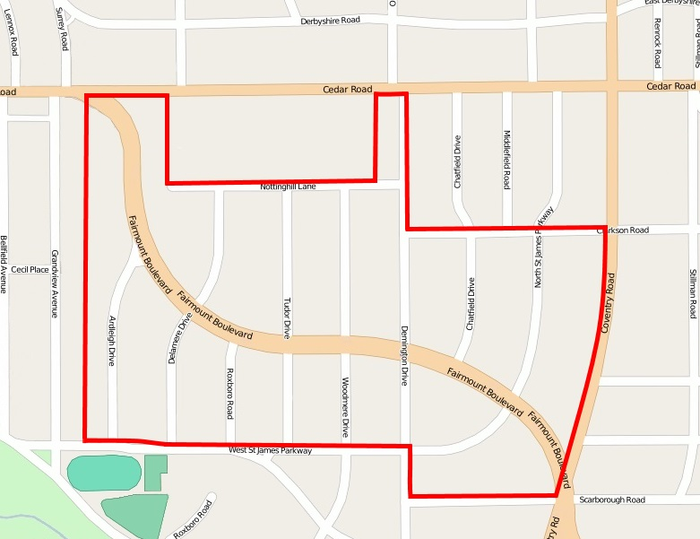 Boundaries of the Euclid Golf Allotment, a historic district listed on the National Register of Historic Places, located in Cleveland Heights, Ohio, in the United States. This map of Cleveland Heights, Ohio, U.S. was created from OpenStreetMap project data, collected by the community. This map may be incomplete, and may contain errors. Don't rely solely on it for navigation.